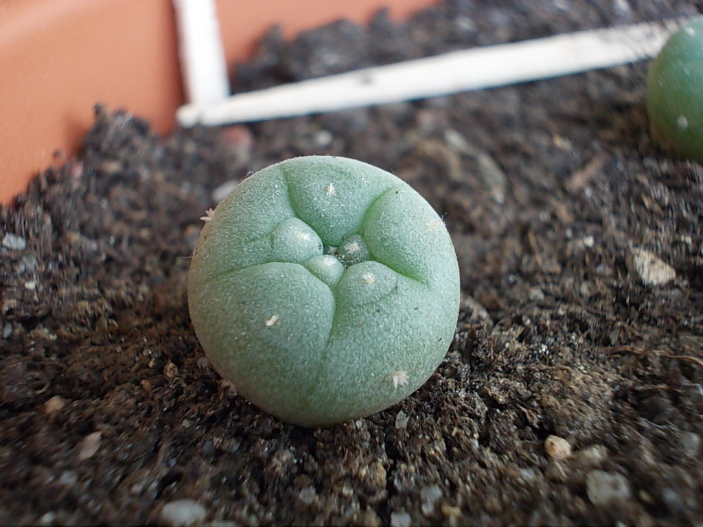 Lophophora Williamsii, one year old, growing on my windowsill, Spain. I'd appreciate it if any reproductions of this image would credit myself.